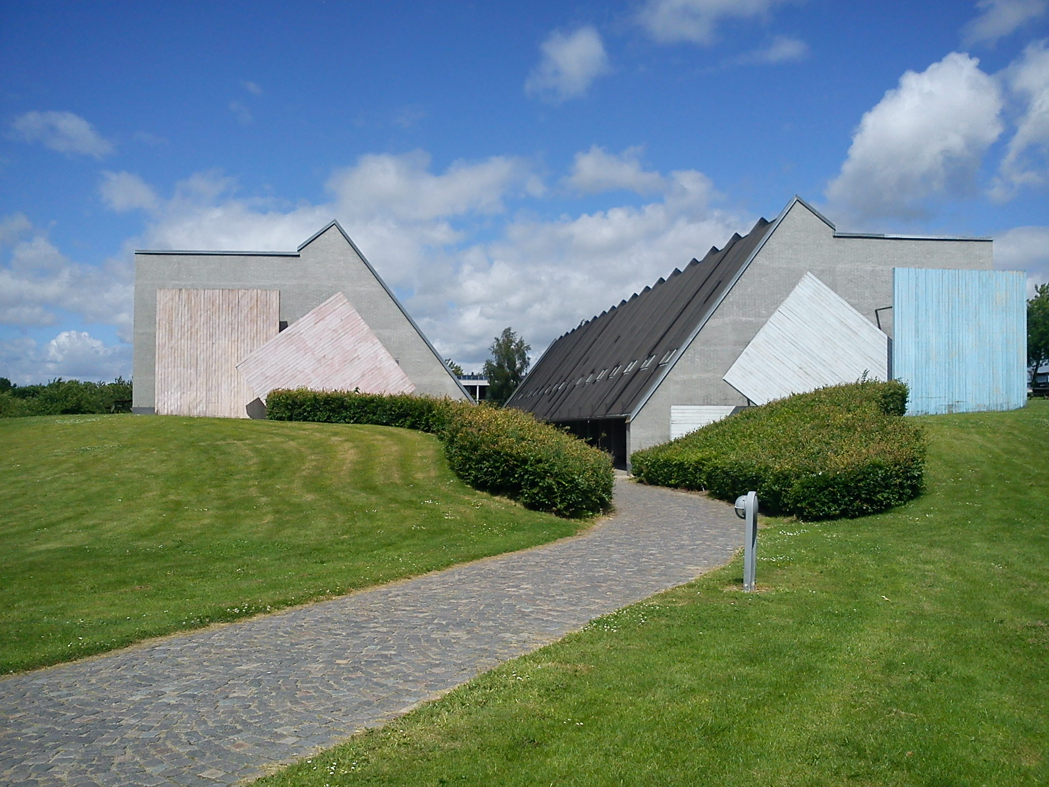 Skjoldhøjkollegiet